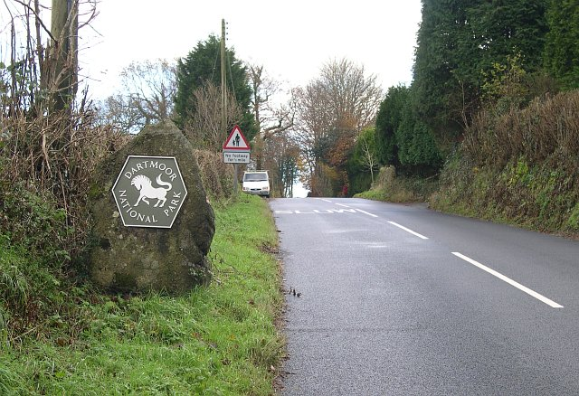 The road through Grenofen. The Dartmoor National Park sign is attached to a large block of granite. It is displayed on this minor road as it crosses the park boundary.